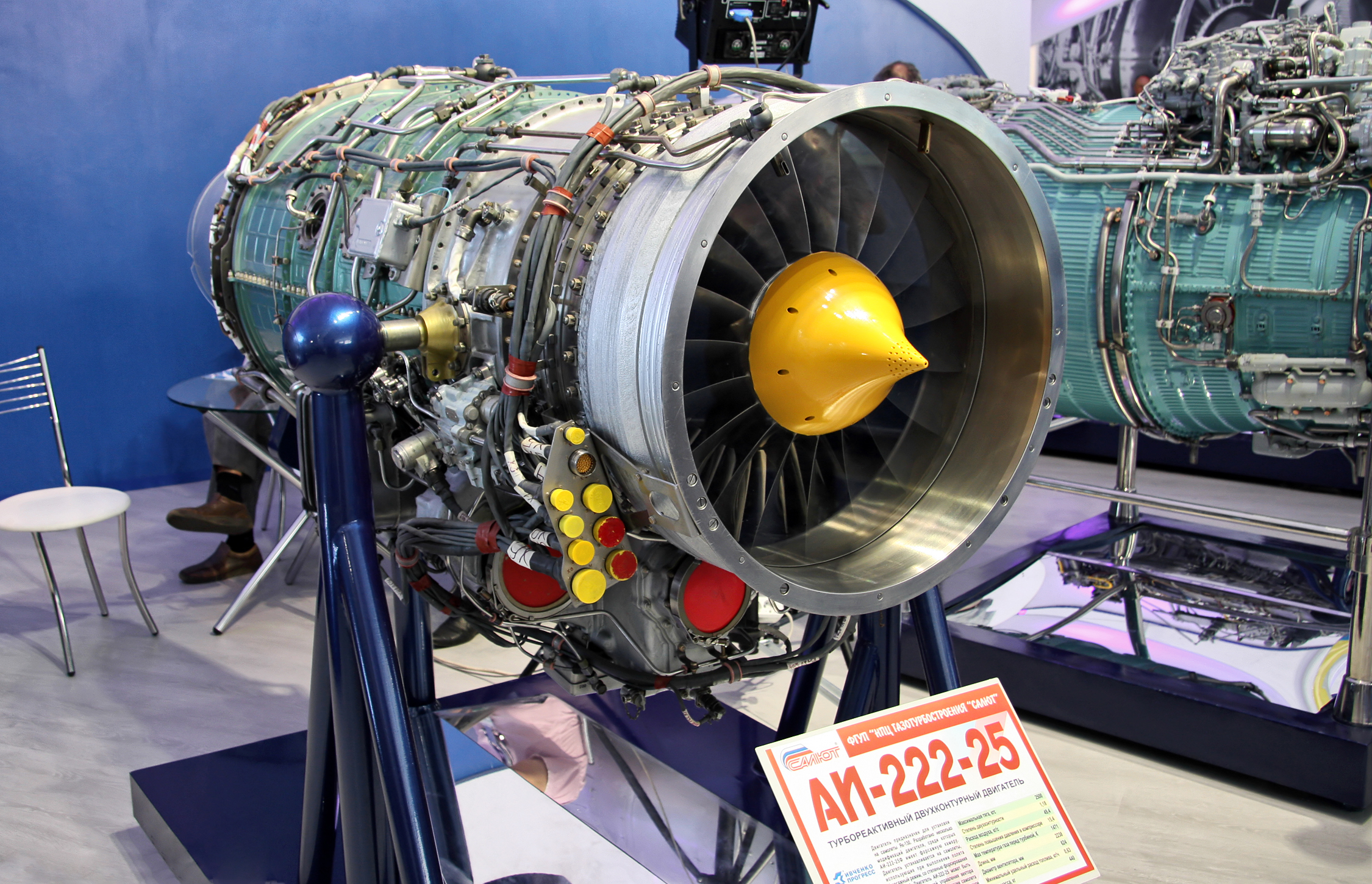 AI-222-25 at MAKS-2011